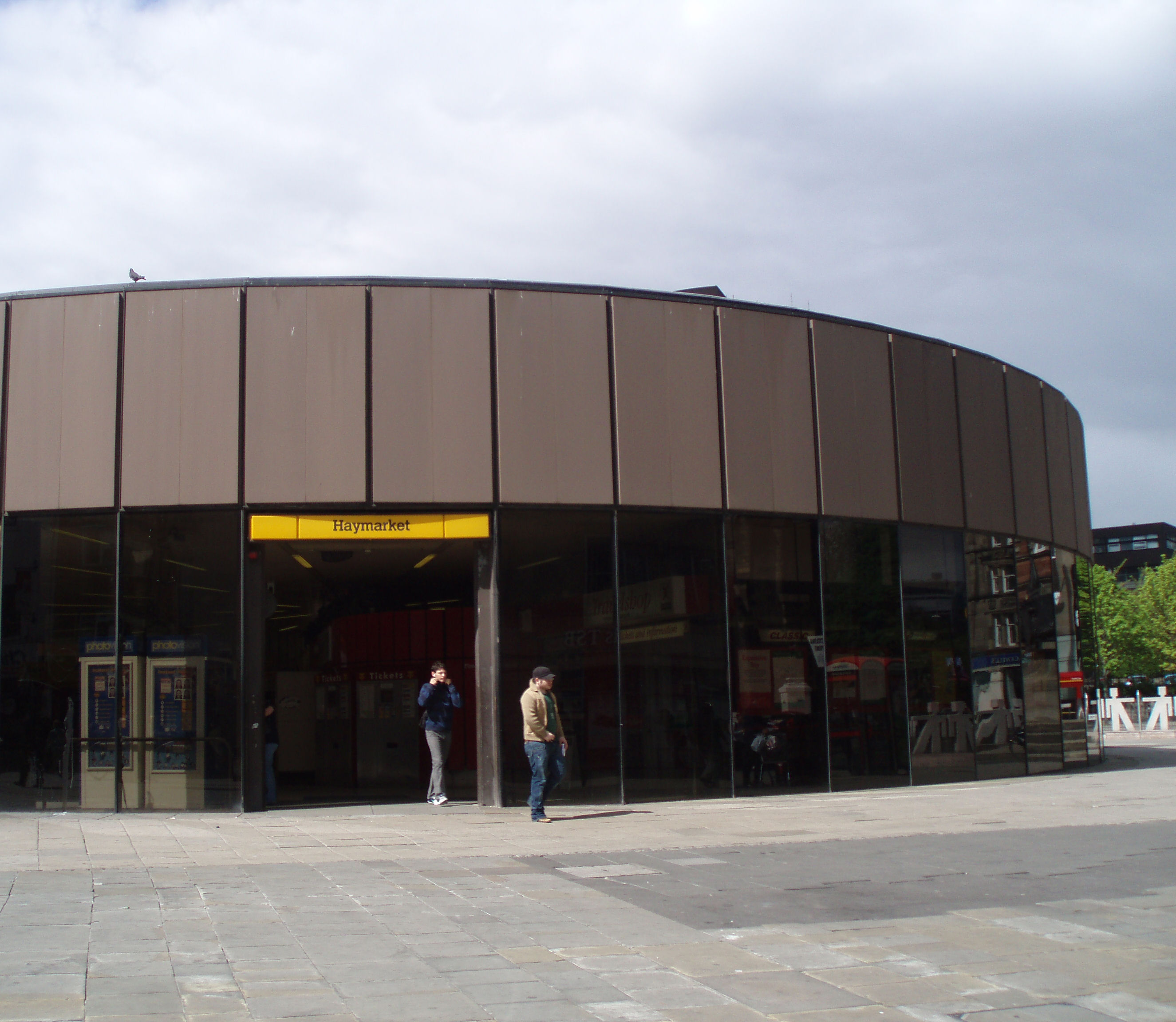 Haymarket station on the Tyne and Wear Metro. The north side of the original station building opened in 1980, since replaced by the Haymarket Hub, opened in 2010.